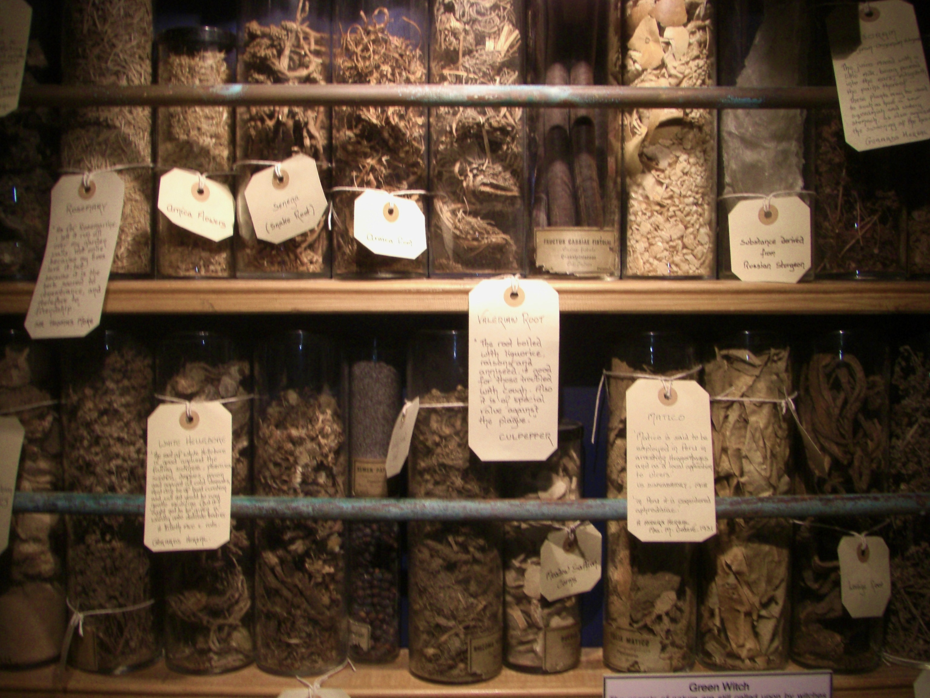 A selection of jars containing herbs and other ingrediants used by Cunning folk in Britain. Artefacts at the Museum of Witchcraft.